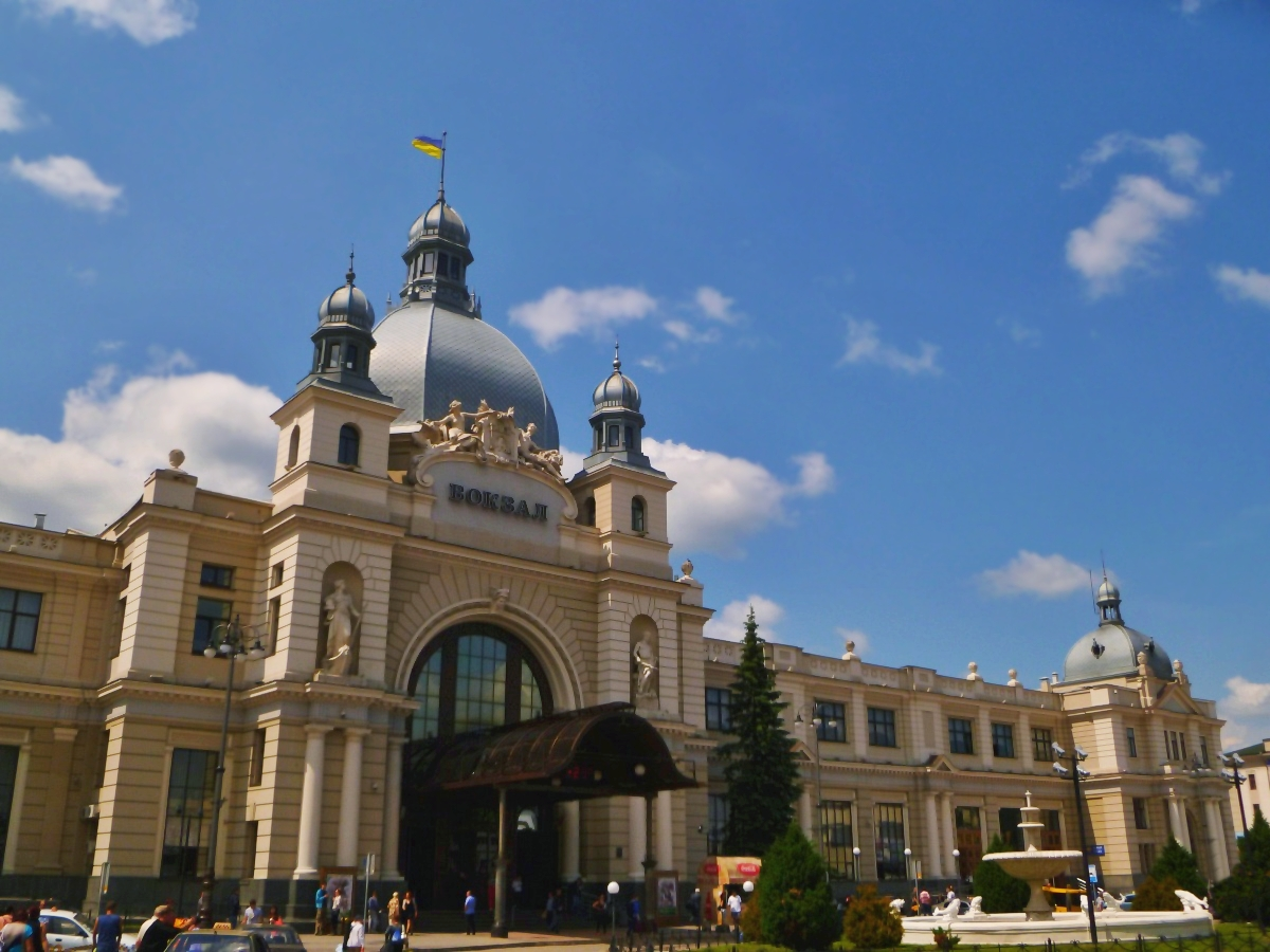 Lviv Main Railway Station